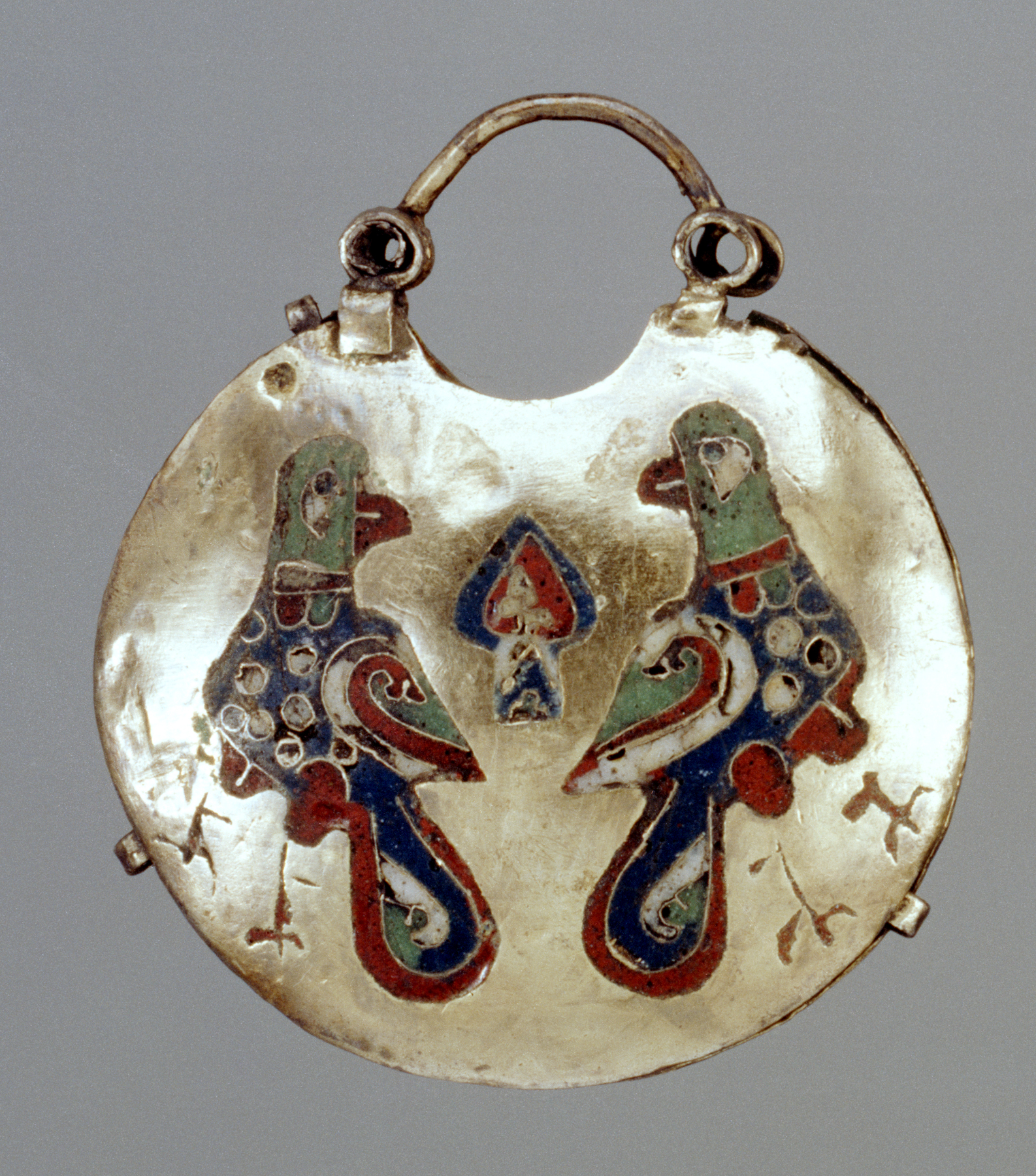 "Kolty" (singular "kolt") are pendants that attached to a woman's headdress at the temples. The hollow space within the two concave gold disks that compose a "kolt" contained perfumes or scented oils. The pendants were usually decorated on both sides, since they could rotate as the woman walked. This "kolt" is decorated with delicate cloisonné enamel, a technique learned from Byzantine masters starting in the late 10th century. "Kolty" were frequently worn at wedding ceremonies; the lilies (center), birds, and seeds that fleck the birds' breasts are all symbols of fertility. The bird is also an image retained from Russia's pagan past.